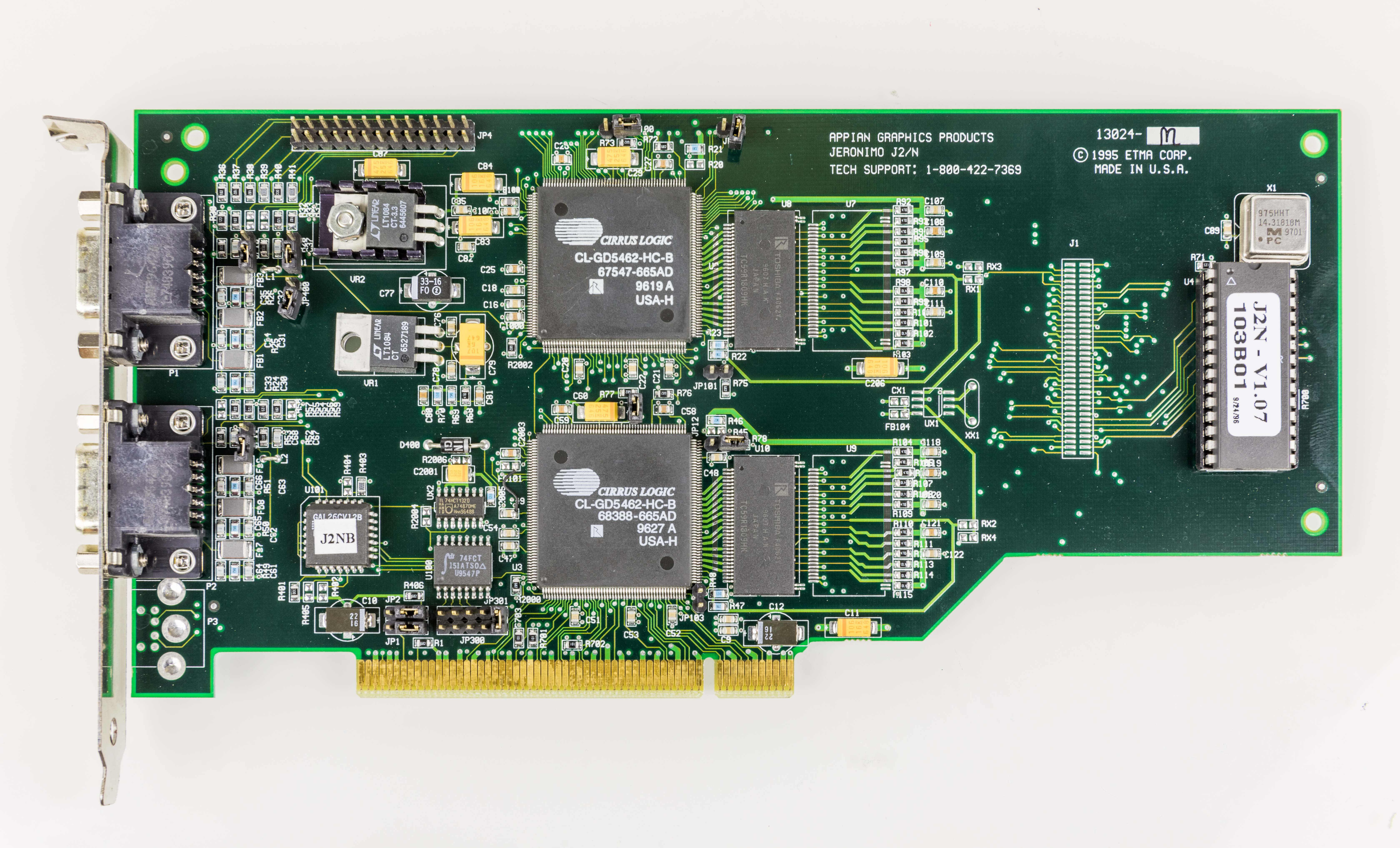 Appian Graphics Jeronimo J2/N - dual head multi monitor PCI video card